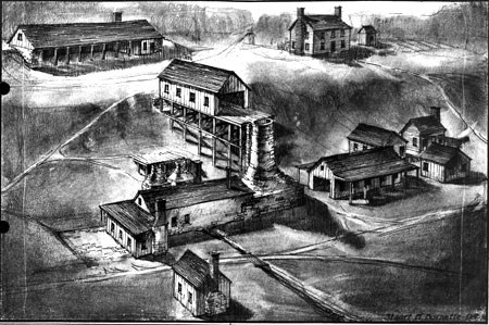 Artist depiction (conjecture) of Catharine Furnace